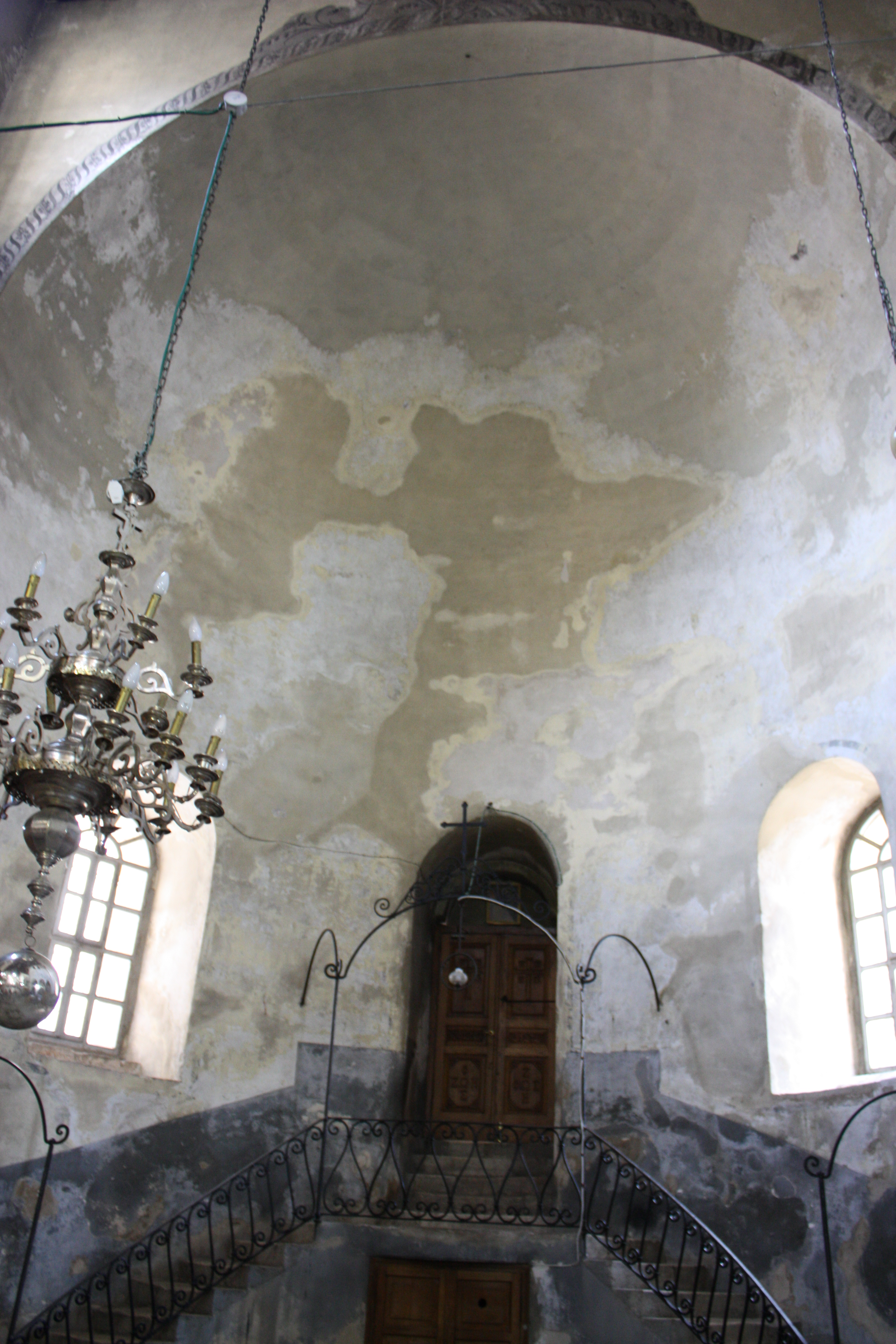 Interior of the Church of the Nativity.